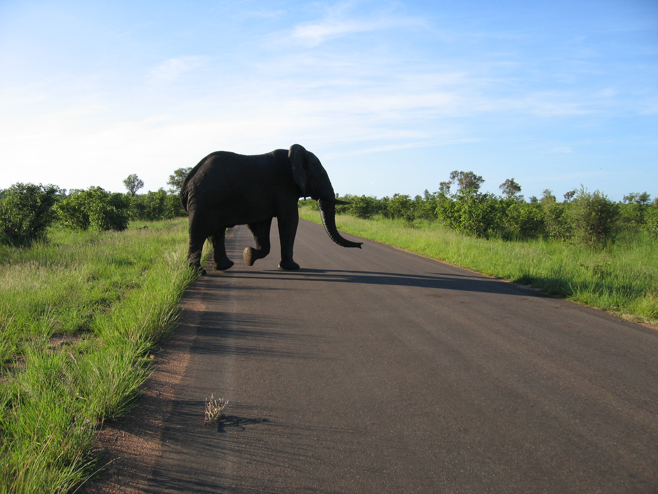 Elephant crossing the road in Kruger National Park